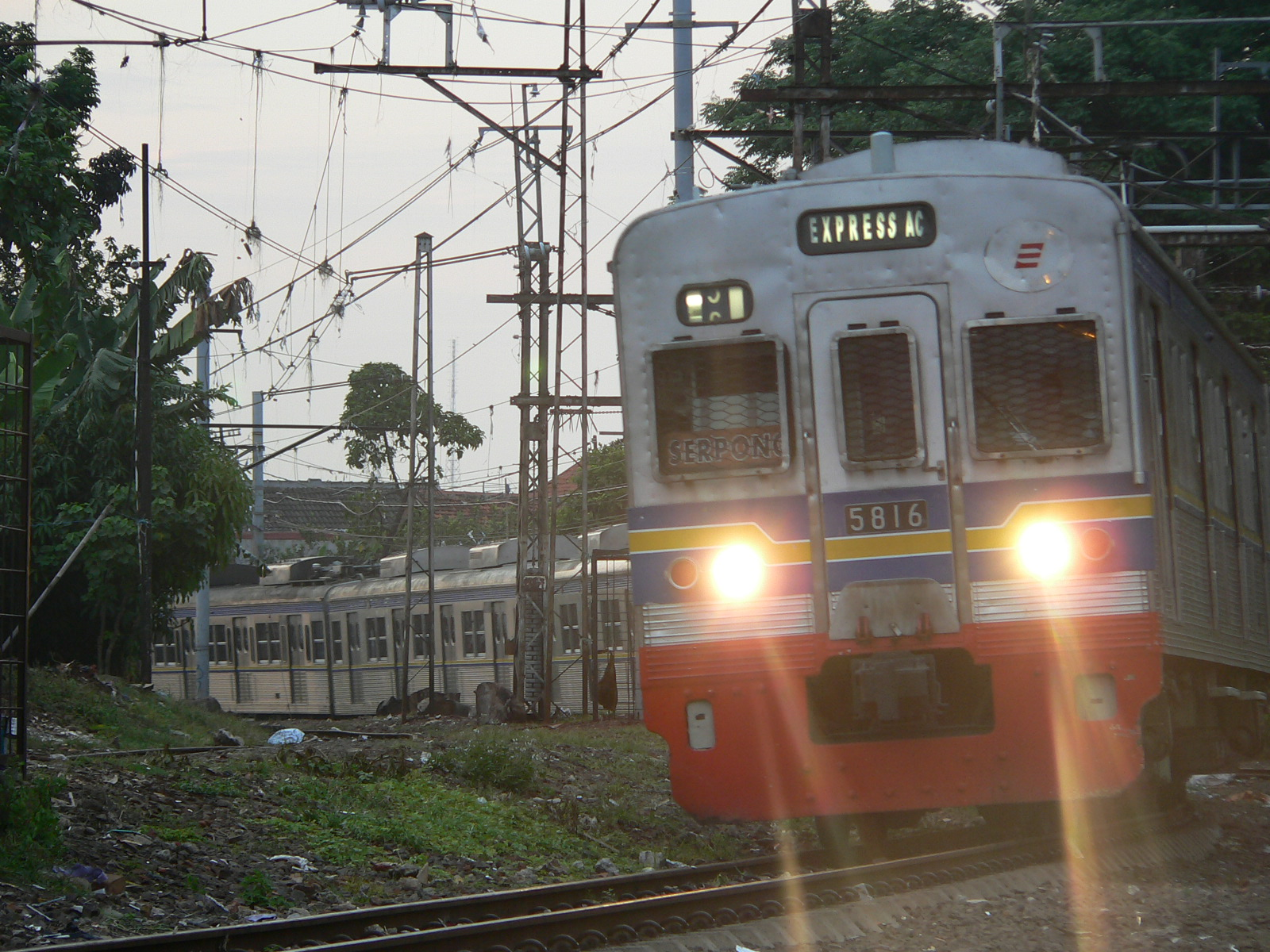 The one of rolling stocks of Jabodetabek Railway. Jabodetabek 5000 Series - 66F (5816F) EMU trainsets, former of Tōkyō Metro Tōzai Line. Sudirman - Manggarai curve, Jakarta - Indonesia